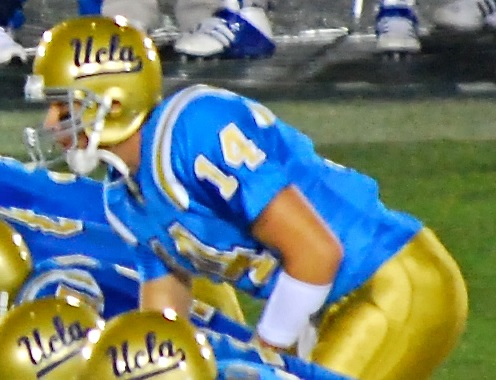 UCLA quarterback McLeod Bethel-Thompson